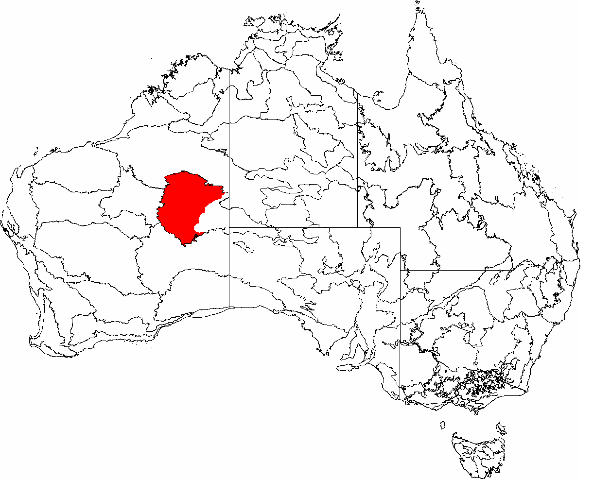 This is a map of the Interim Biogeographic Regionalisation of Australia (IBRA), with state boundaries overlaid. The Gibson Desert region is shown in red.